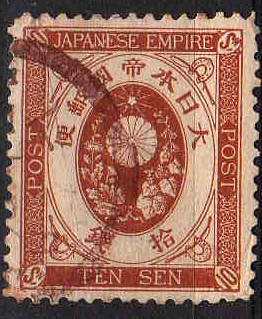 A postage stamp of Japan, New Koban Series definitives, 10 sen.